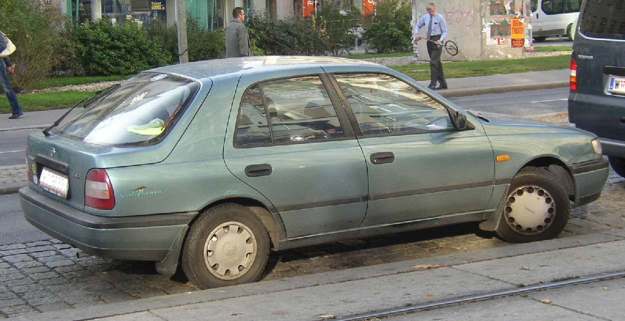 Nissan Sunny hatchback, built appr. 1995